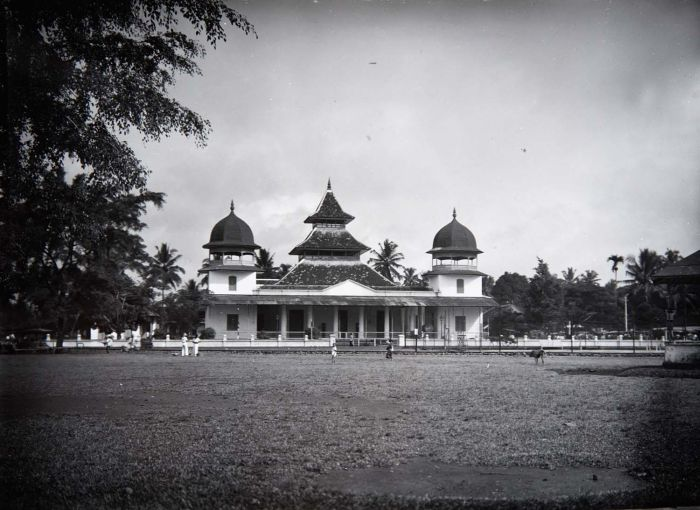 Mosque